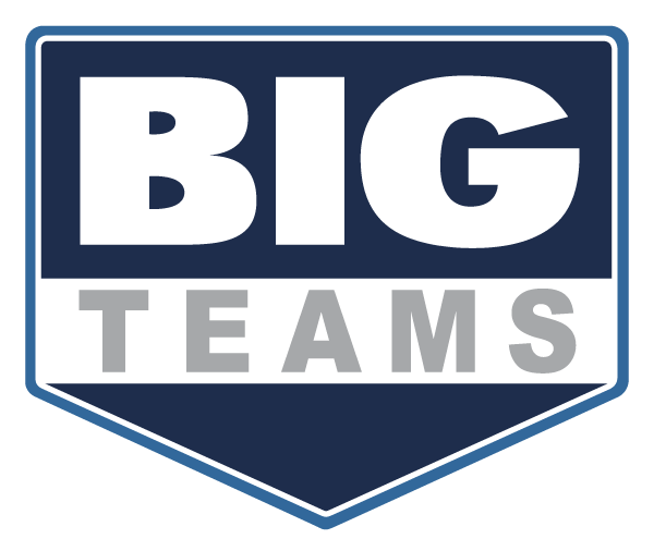 BigTeams company logo